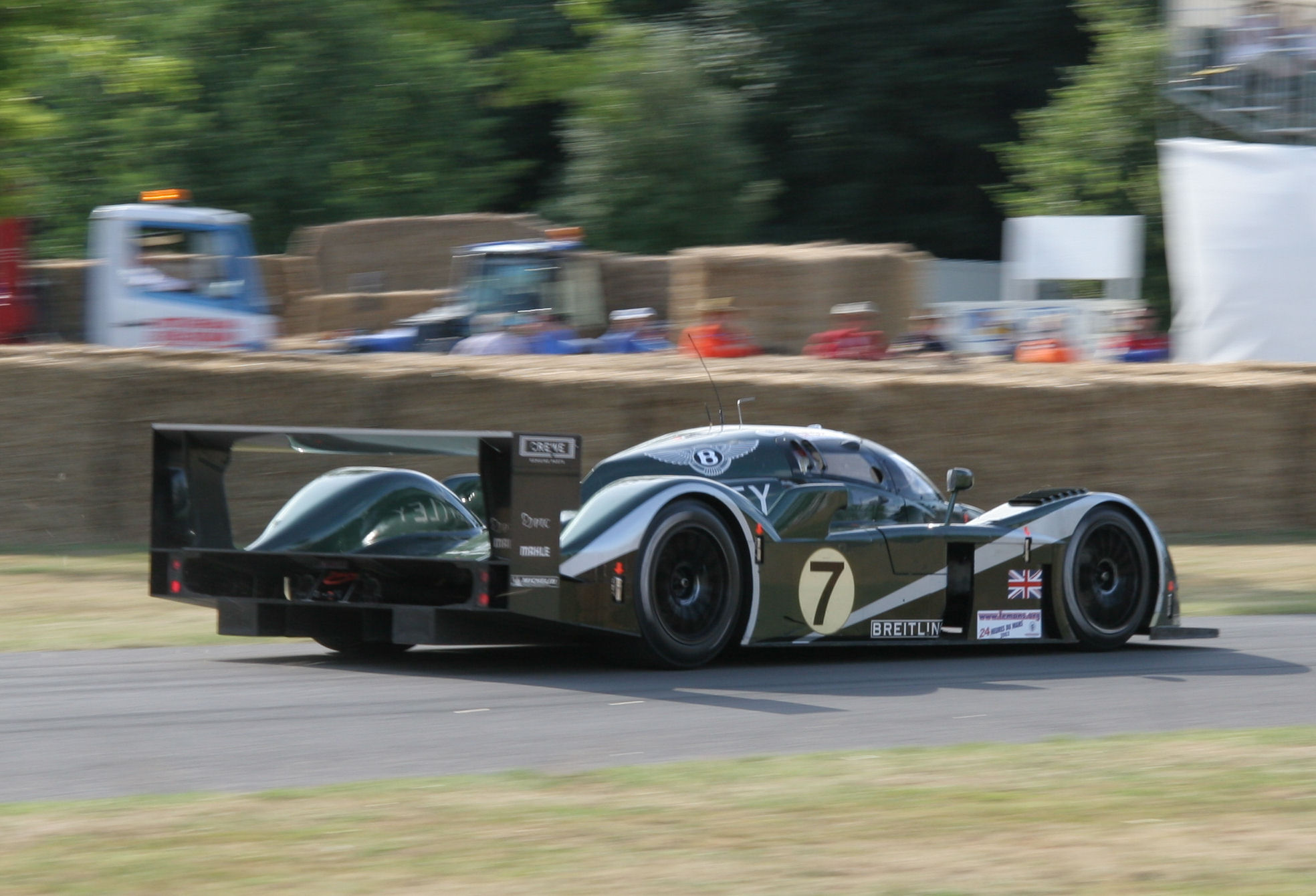 2003 Bentley Speed 8 Le Mans car at the 2006 Goodwood Festival of Speed